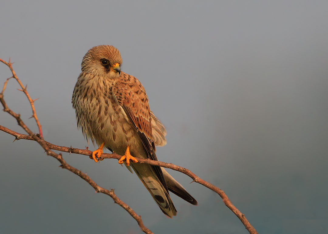 Lesser Kestrel- a very rare winter visitor to India. This image of Lesser Kestrel was shot in Bangalore- India in October 2012